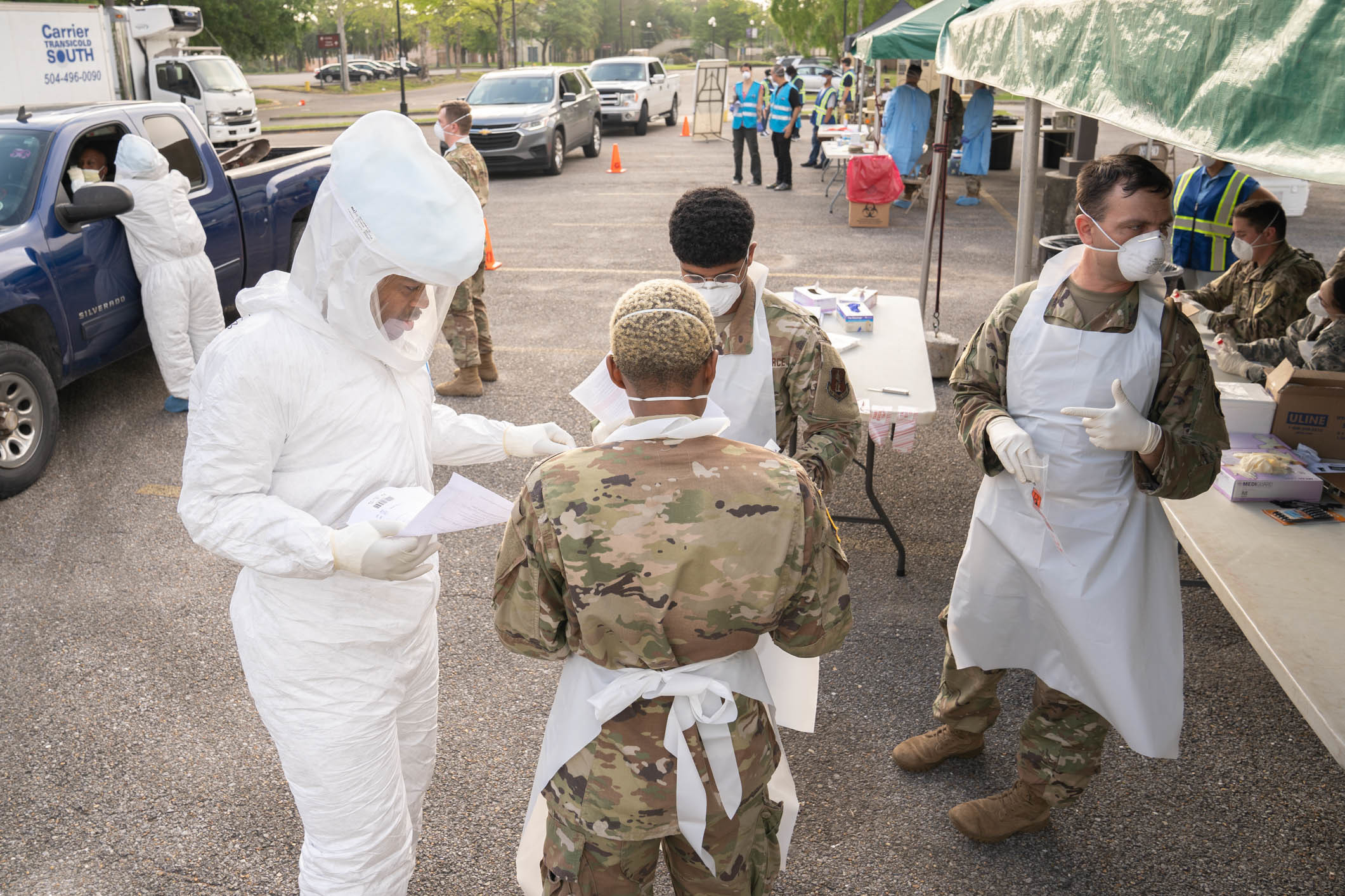 Louisiana National Guard Soldiers and Airmen test first responders for COVID-19 infections at Louis Armstrong Park, New Orleans, Louisiana, March 20, 2020. The testing site is one of three across New Orleans and Jefferson Parishes and will soon open to the general public. (U.S. Army National Guard photo by Staff Sgt. Josiah Pugh)